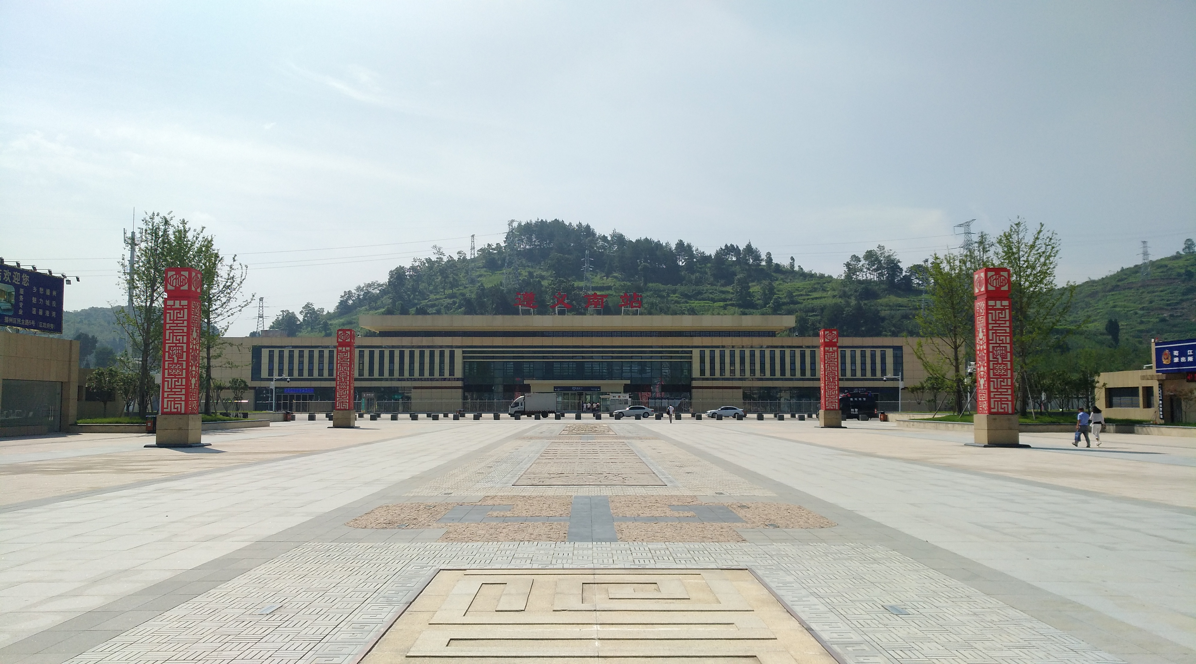 China Railway Zunyinan Station Building